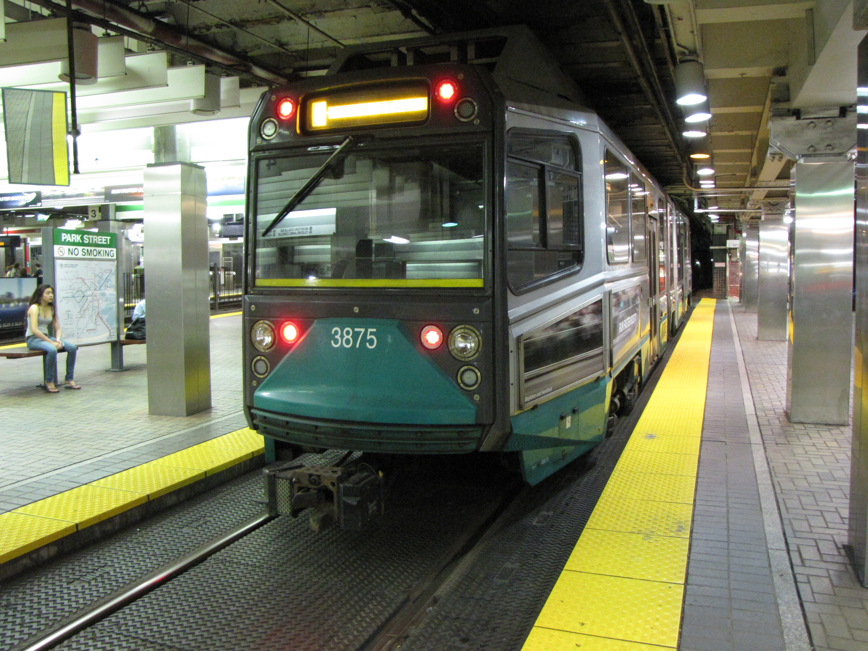 MBTA Green Line Type 8 LRV at Park Street station in Boston, Massachusetts. Type 8 LRVs were manufactured by AnsaldoBreda.